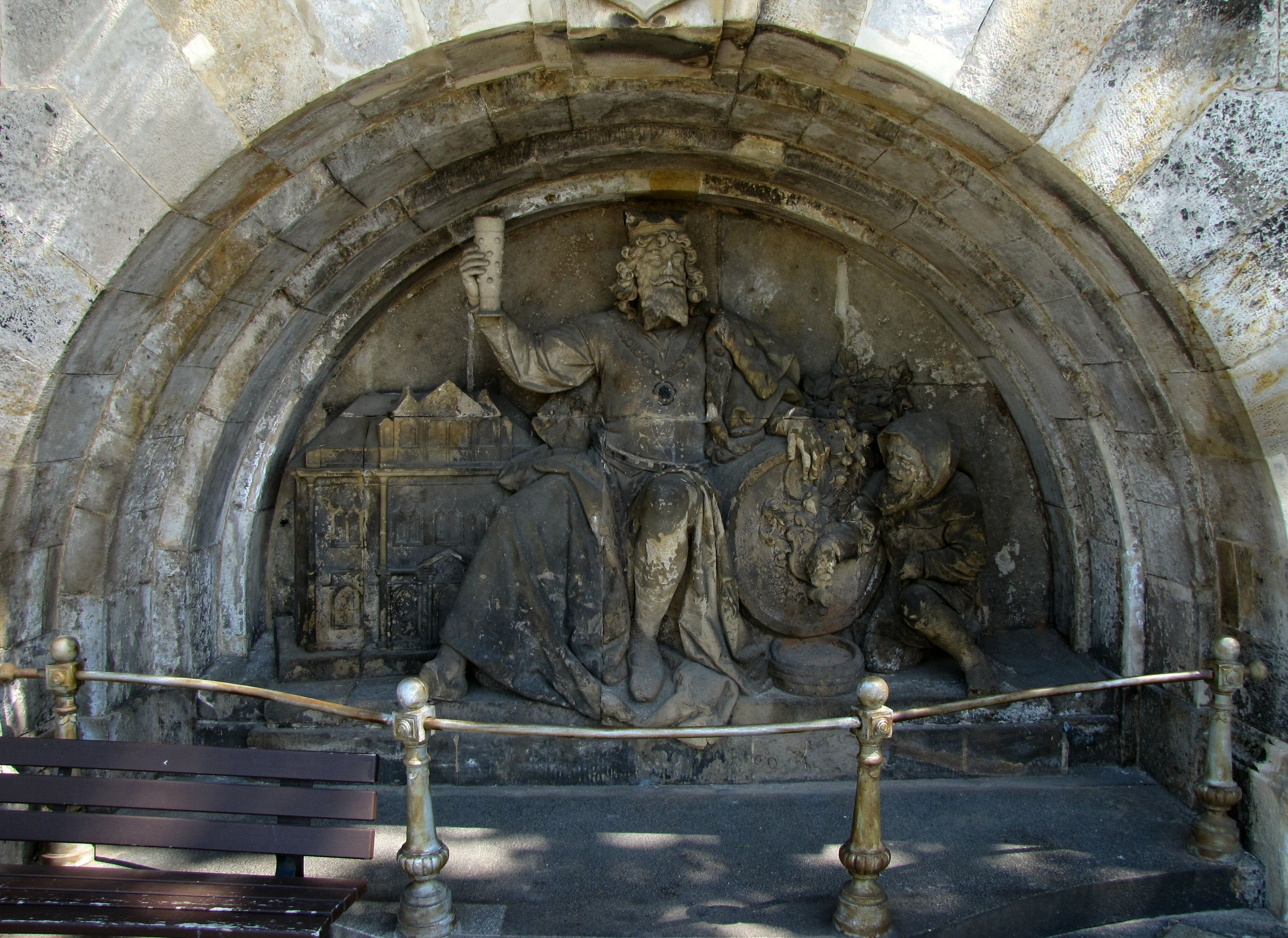 Disused wall fountain (Wandbrunnen) at the Waldschlösschen in Dresden